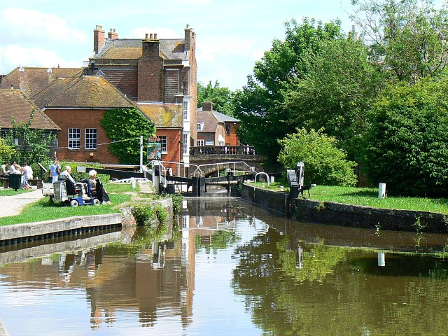 Kennet and Avon canal, Newbury, near to Newbury, West Berkshire, Great Britain. The canal and nearby River Kennet form a pleasant green corridor through the town of Newbury. In this view the canal narrows as it enters a lock.